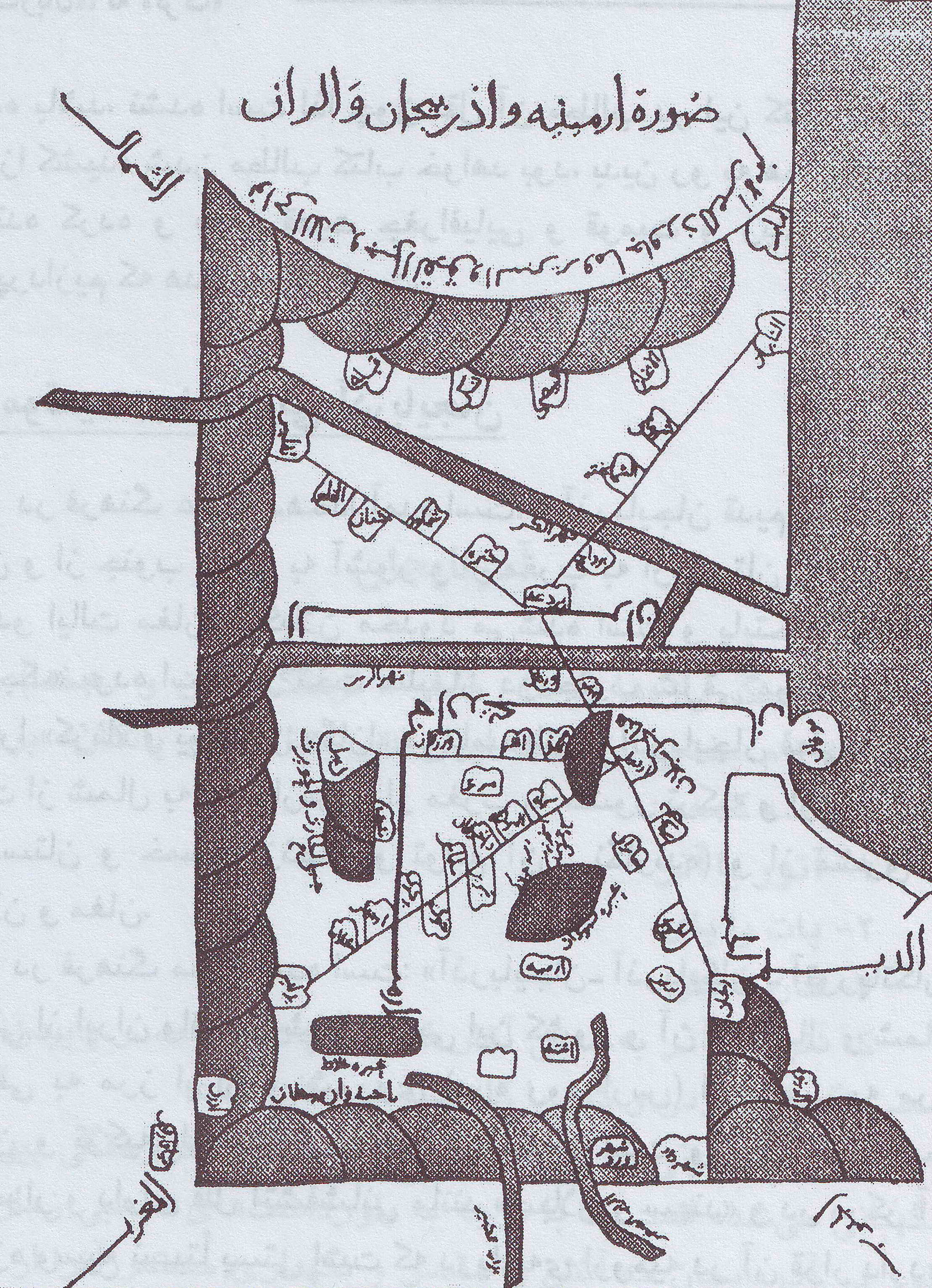 Simplified Ibn Hawqal’s map of Armenia, Azerbaijan and Arran (Albania), which shows their relative positions. Arran is north of the Arax and Kura rivers, while Azerbaijan is south of the Arax River. From Ibn Hawqal’s Surath ul-Ardh, BNF Paris, MS Arabe 2214, p. 58, 1145 AD.